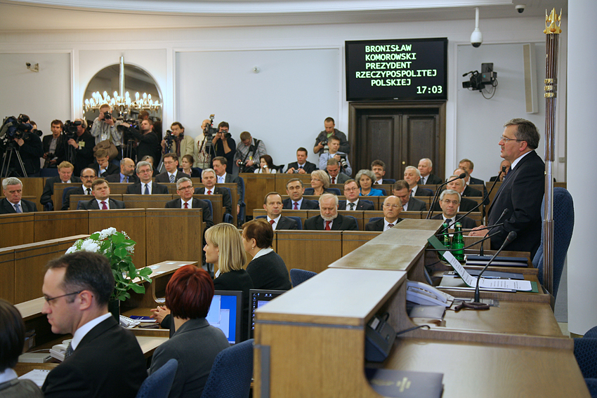 President Bronisław Komorowski. First sitting of the 8th term Senate